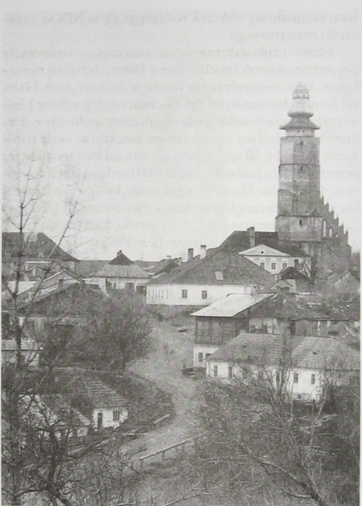 Biecz from east